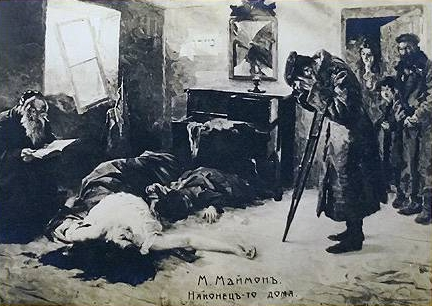 Home at Last